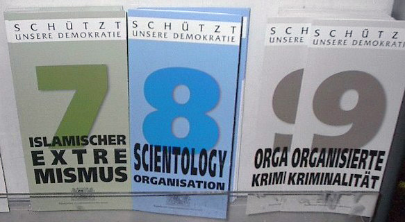 Information leaflets on threats to democracy, including Islamic extremism, Scientology and organized crime. The slogan on the leaflets translates as "Protect our democracy". Spotted in Nuremburg, Germany. The first leaflet reads "Islamic extremism", the second one "Scientology organization" and the third one (to the right) "Organized criminality". Image by Caesura.